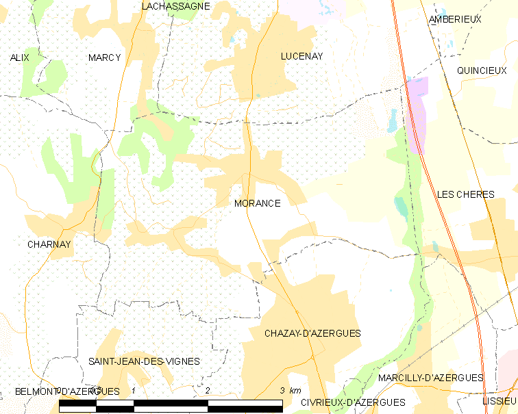 Map of French municipality